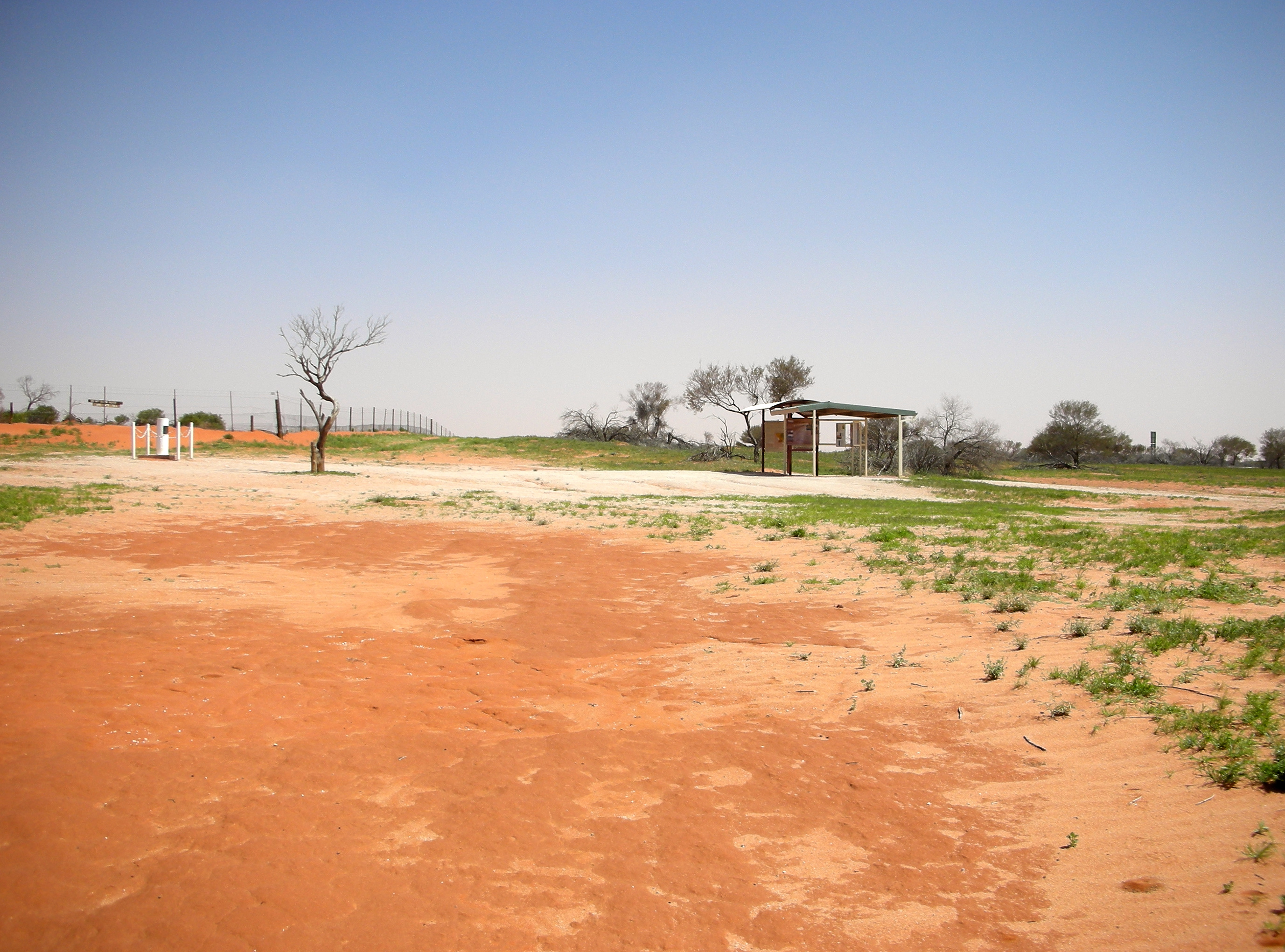 Author J Murdoch ( I took the photo ) - Taken at Cameron Corner 27 January 2007